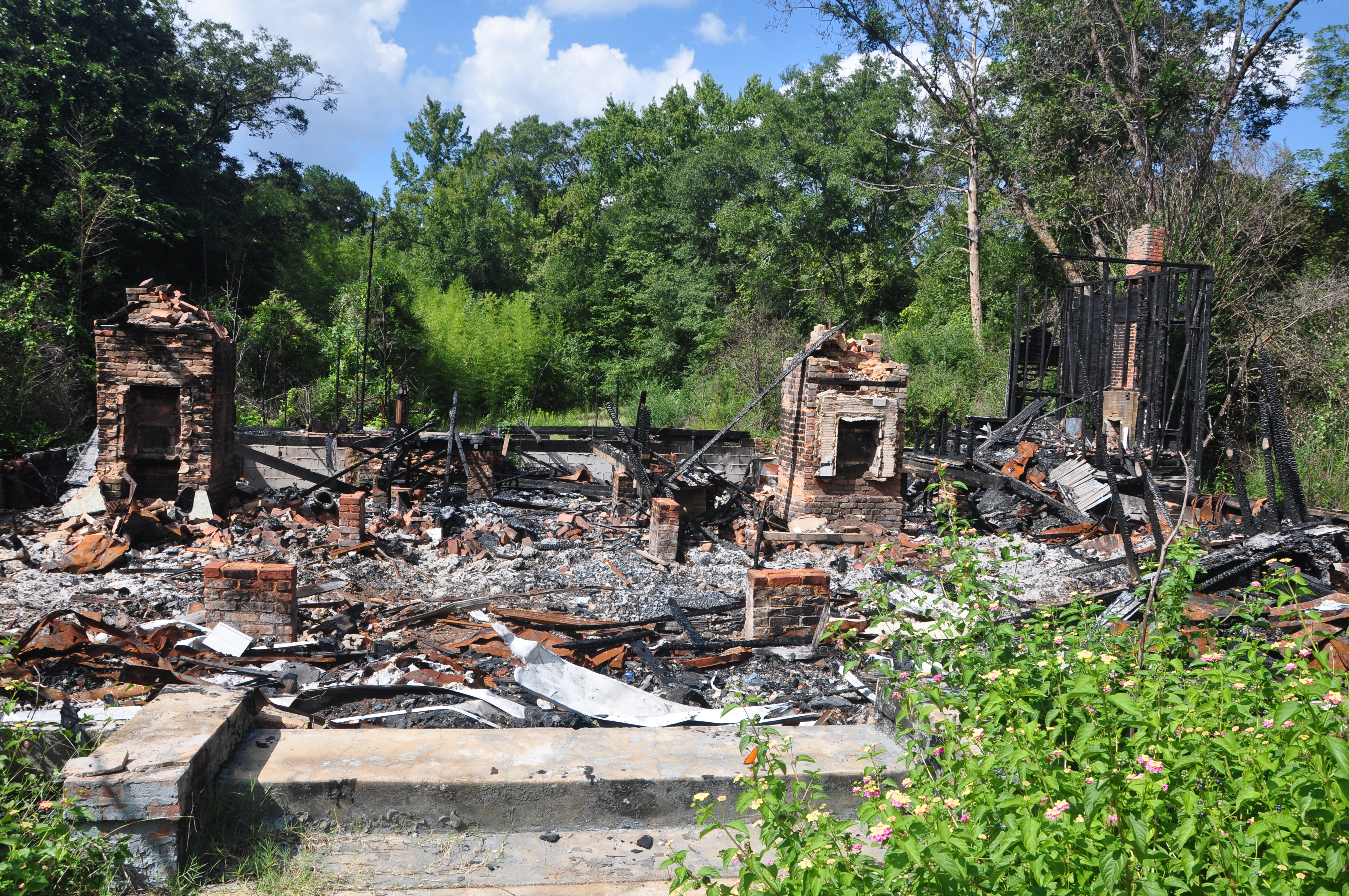 Great Hill Place, W of Bolingbroke off GA 41 Bolingbroke